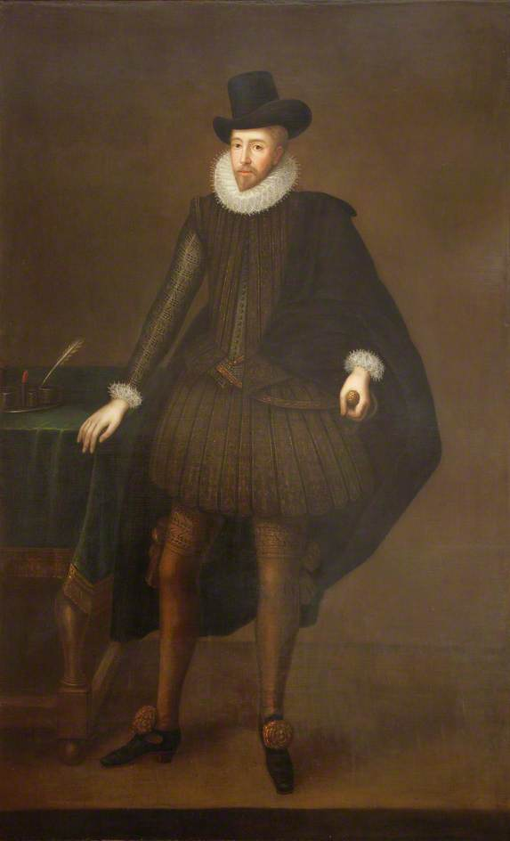 Depicted person: Baptist Hicks, 1st Viscount Campden – Member of the Parliament of England